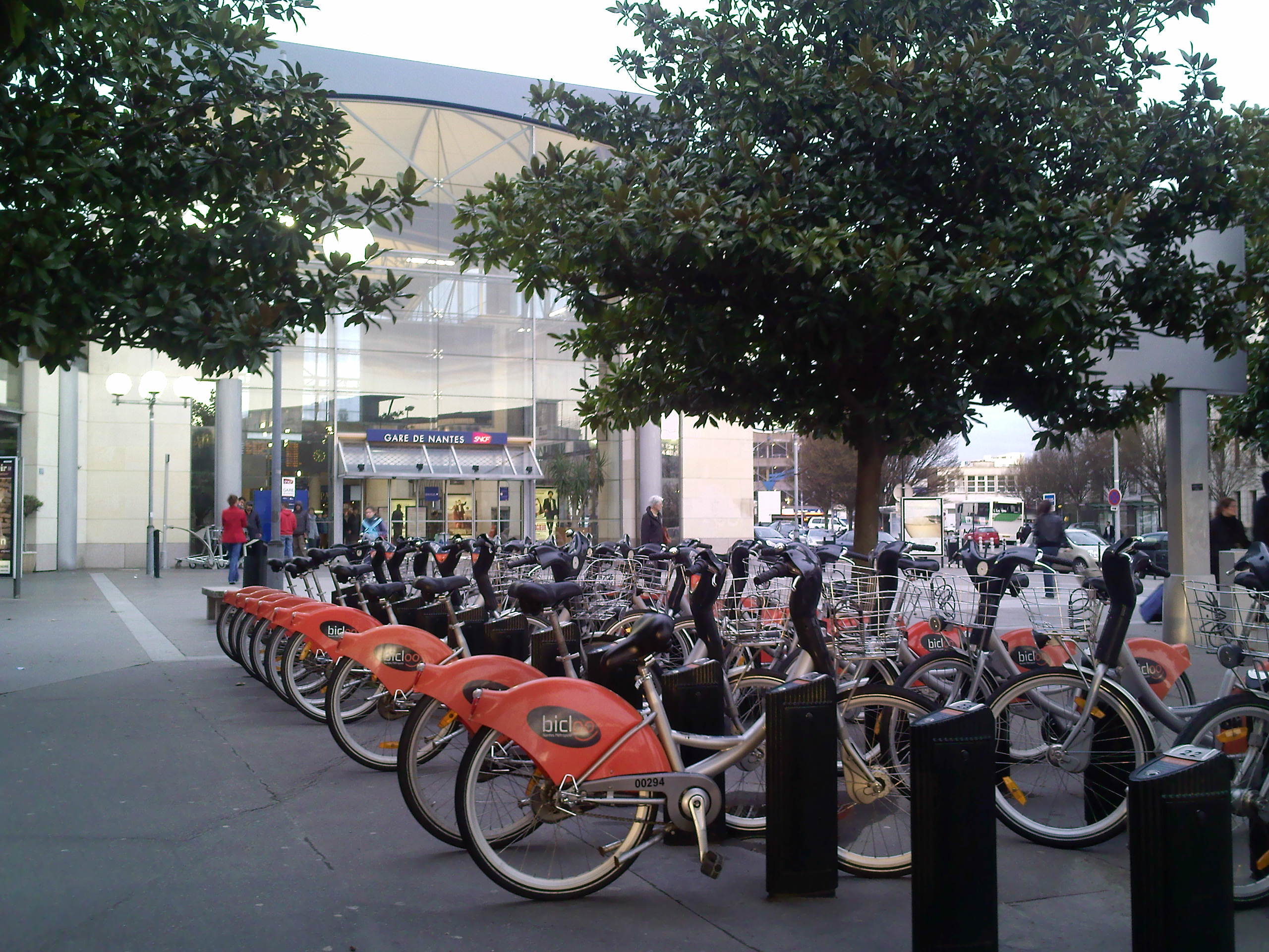 Bicloo bikes in front of Nantes' train station (France).